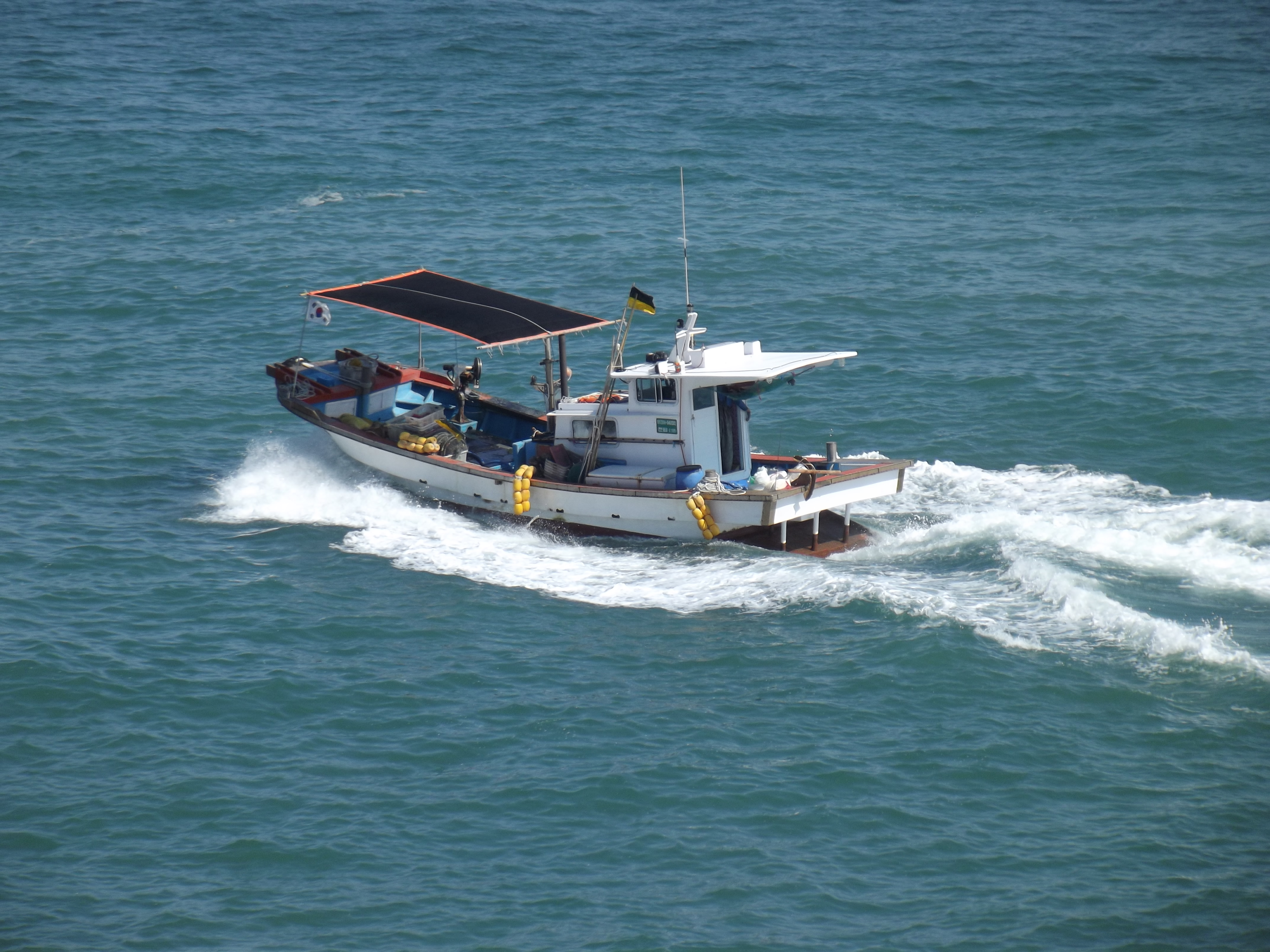 Fishing boat from Yulrim fishing village on Dolsando island